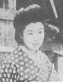 a writer from Japan,内藤千代子（Chiyoko Naito）